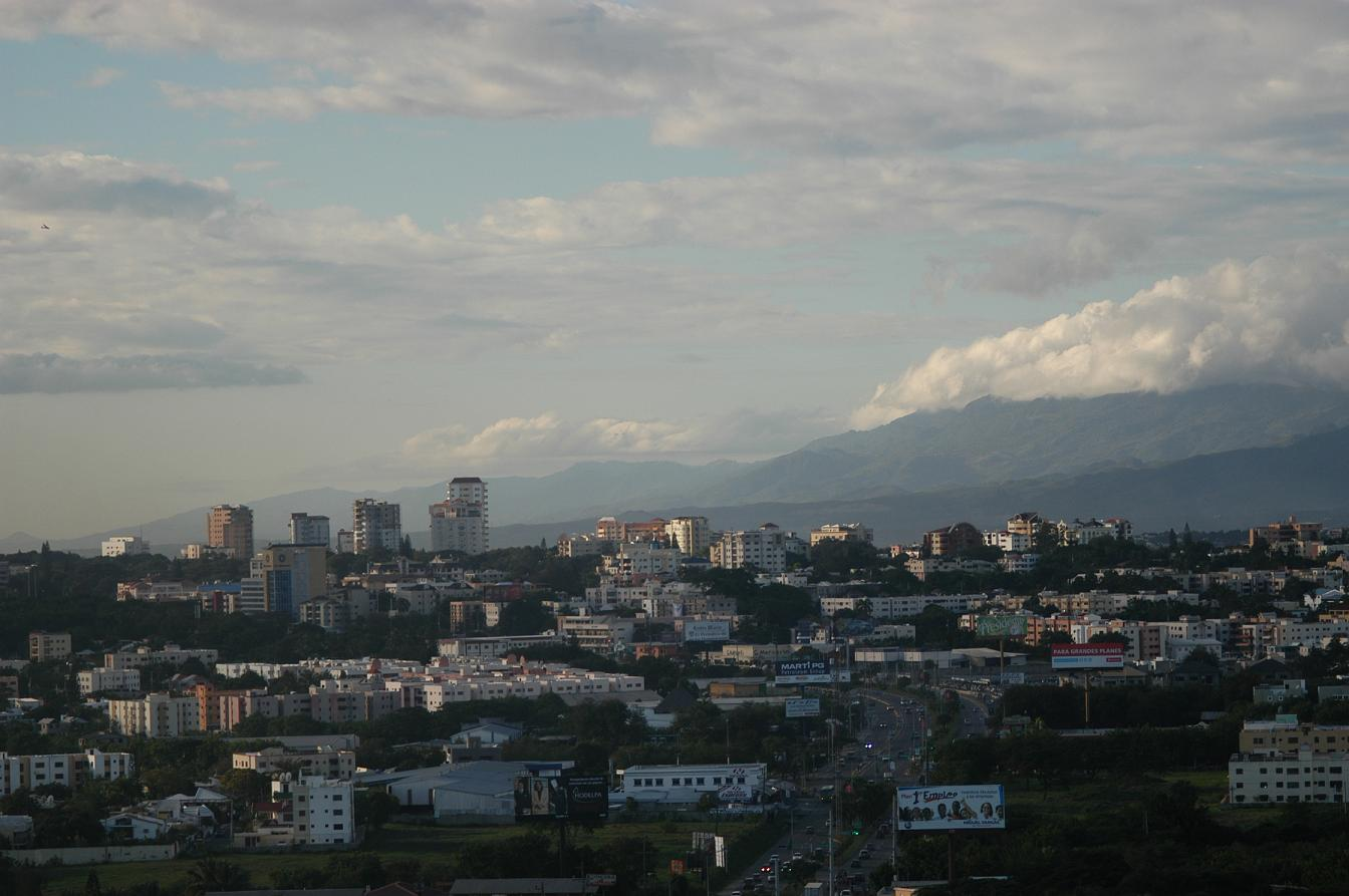 Santiago City seen from the HOMS (10th floor) (Own work)